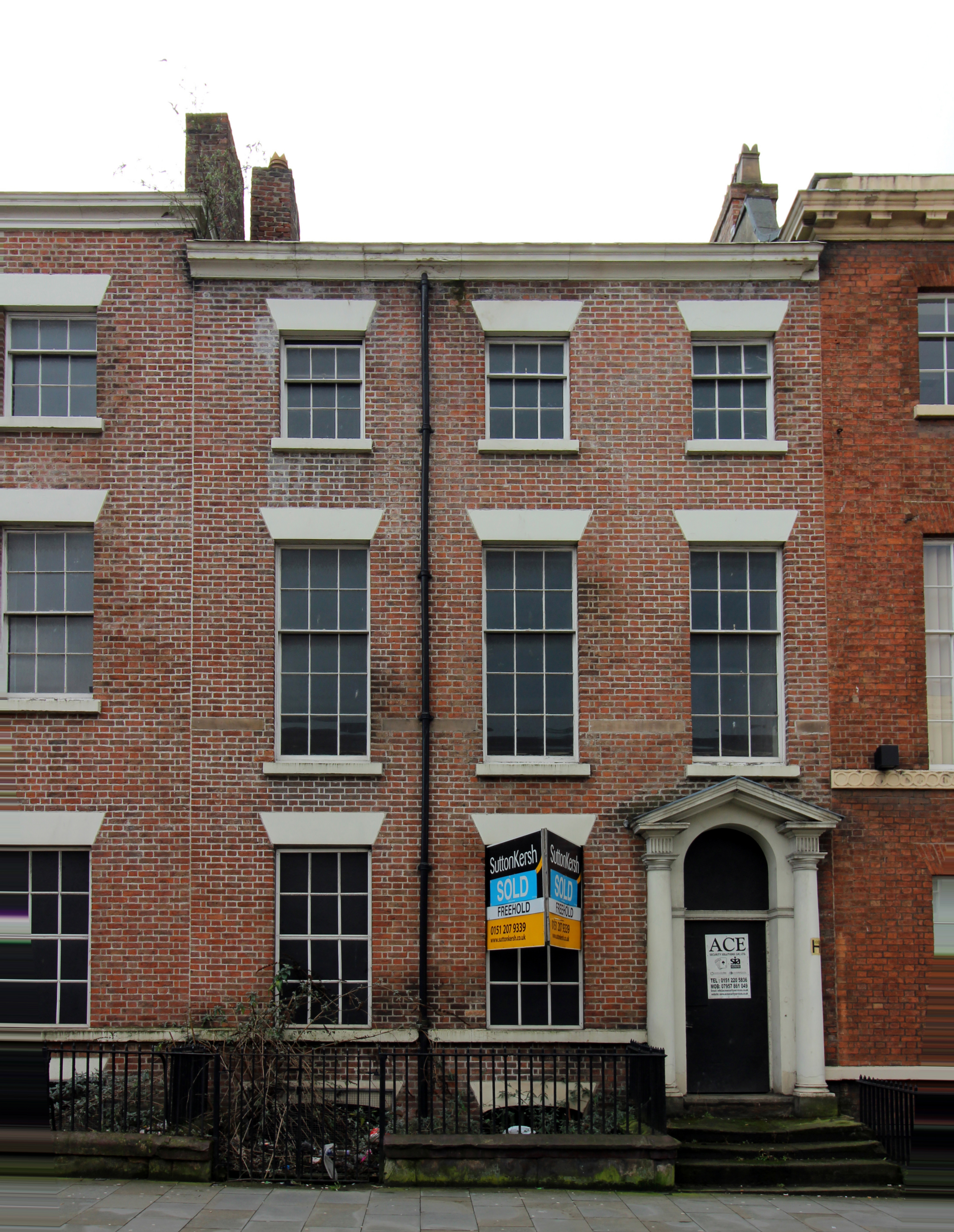 Grade II listed late 18th century town house on Duke Street, Liverpool, the birthplace of poet Felicia Hemans.